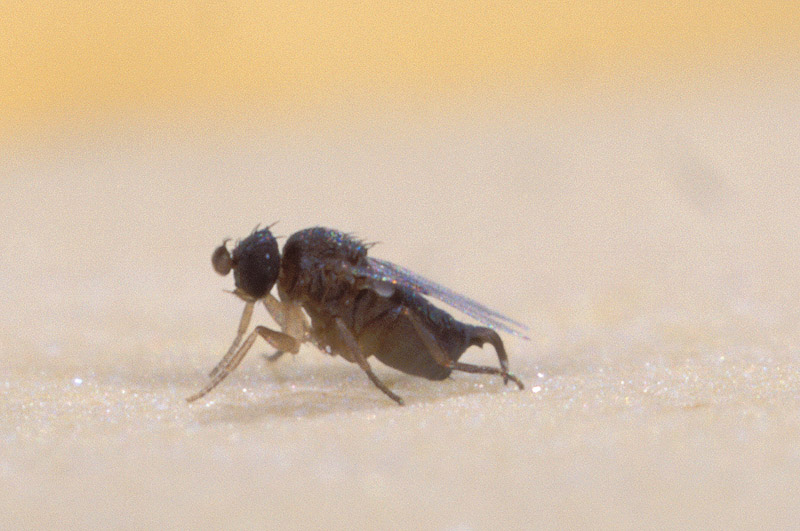 Phorid fly (Genus Pseudacteon). Image courtesy of the USDA Agricultural Research Center [1]